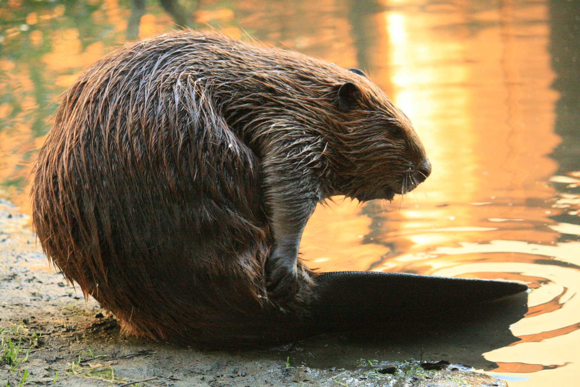 Photograph of yearling beaver.